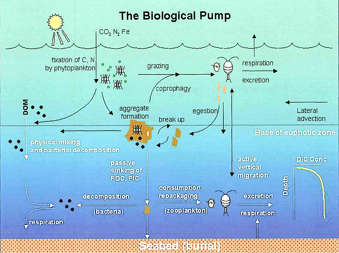 Components of the biological pump The biological pump is responsible for transforming Dissolved Inorganic Carbon (DIC) into organic biomass and pumping it in particulate or dissolved form into the deep ocean. Inorganic nutrients and Carbon Dioxide (C02) are fixed during photosynthesis by phytoplankton, which both release Dissolved Organic Matter (DOM) and are consumed by herbivorous zooplankton. Larger zooplankton-such as copepods, egest fecal pellets - which can be reingested, and sink or collect with other organic detritus into larger, more-rapidly-sinking aggregates. DOM is partially consumed by bacteria (black dots) and respired; the remaining refractory DOM is advected and mixed into the deep sea. DOM and aggregates exported into the deep water are consumed and respired, thus returning organic carbon into the enormous deep ocean reservoir of DIC. About 1% of the particles leaving the surface ocean reach the seabed and are consumed, respired, or buried in the sediments. There, carbon is stored for millions of years. The net effect of these processes is to remove carbon in organic form from the surface and return it to DIC at greater depths, maintaining the surface-to-deep ocean gradient of DIC (inset graph at lower right). Thermohaline circulation returns deep-ocean DIC to the atmosphere on millennial timescales.